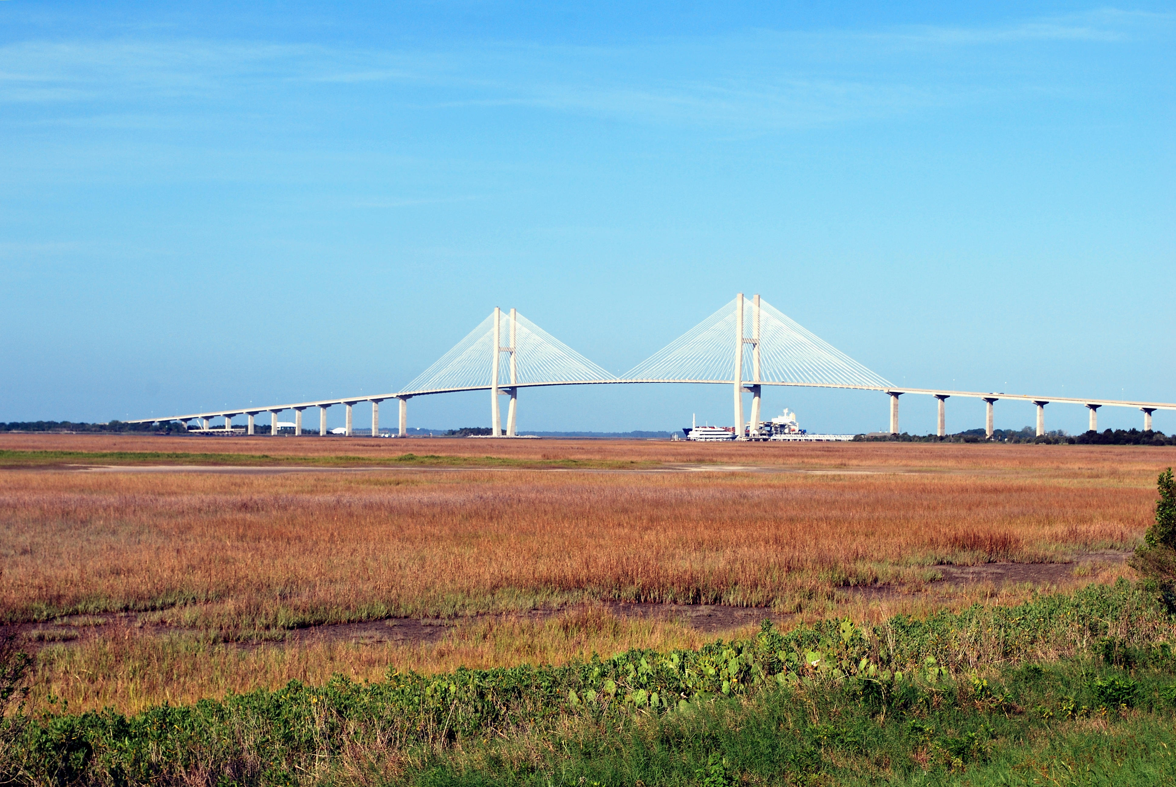 Afternoon sun reflects on the Sidney Lanier Bridge in Brunswick Georgia.